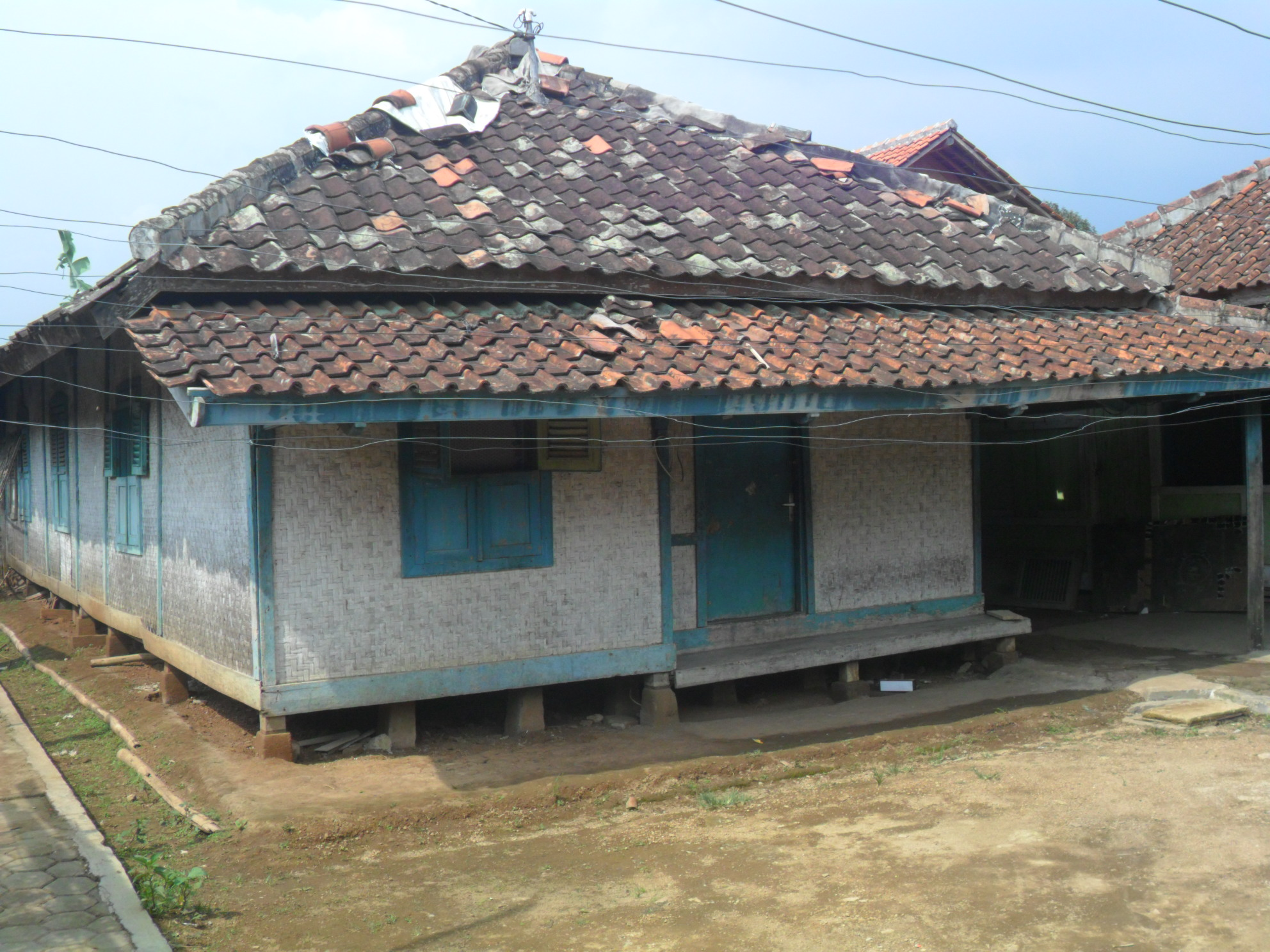 Rumah Panggung Kampung Mahmud, Bandung